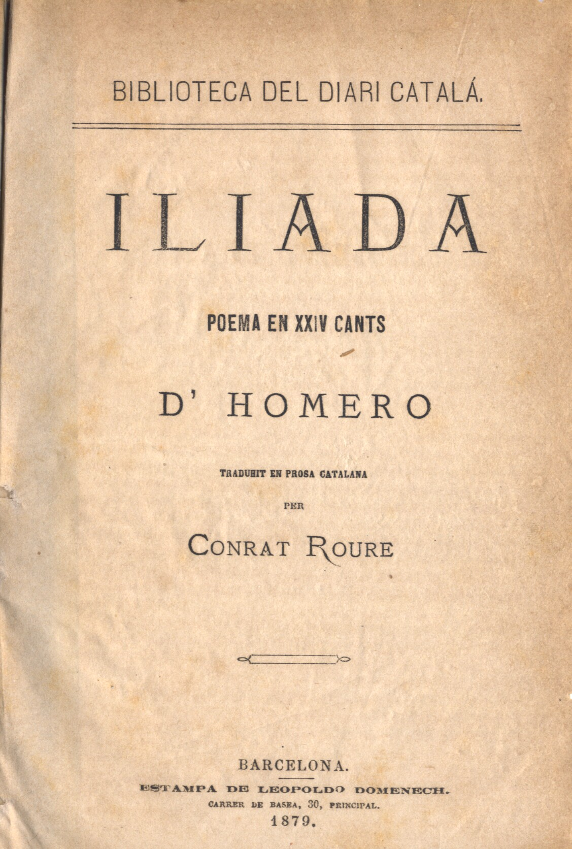 Own picture of the book "Iliada" translated by Conrad Roure (1879)